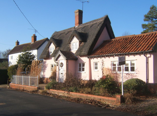 Cottages, High Street, Rattlesden